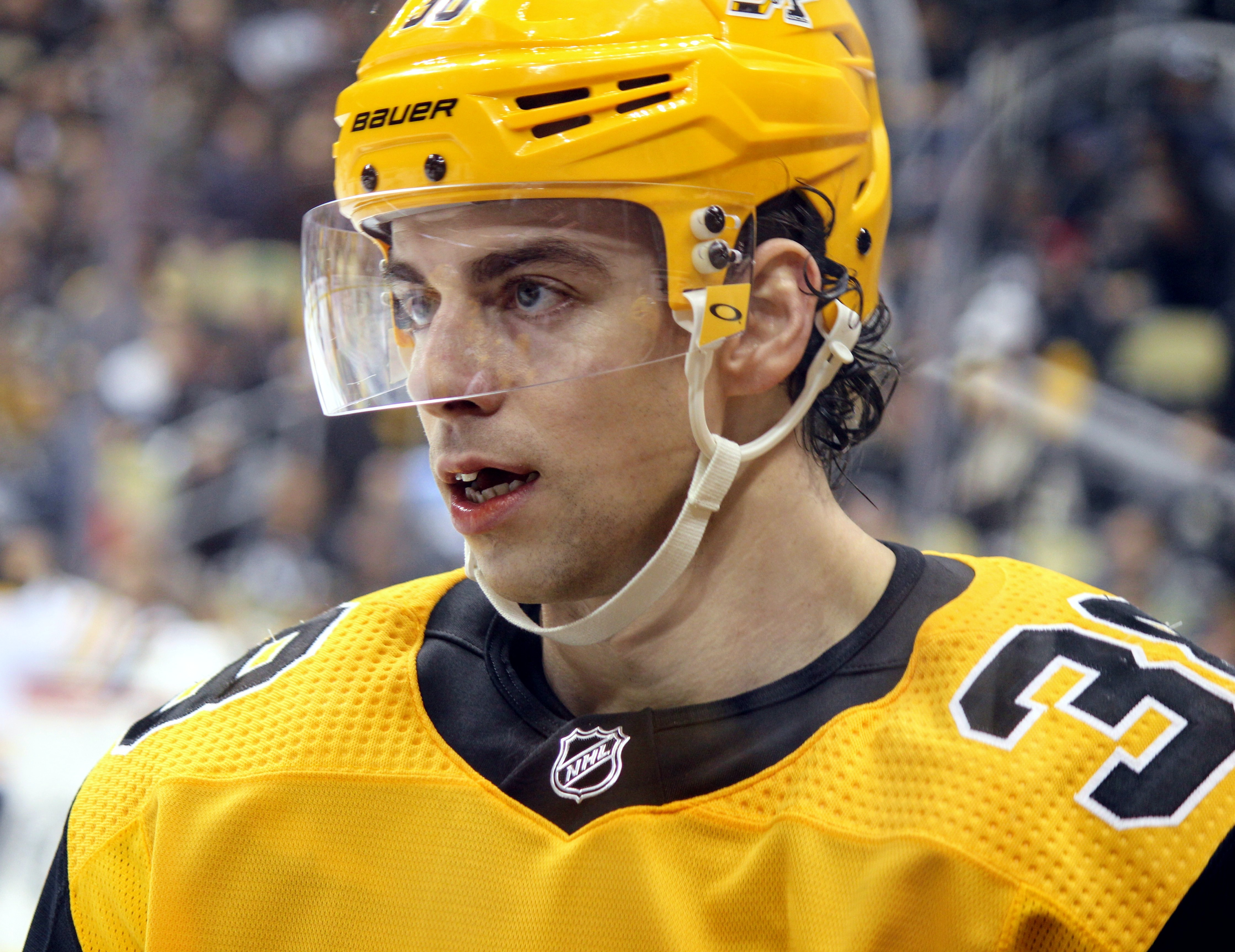 Pittsburgh Penguins forward Derek Grant